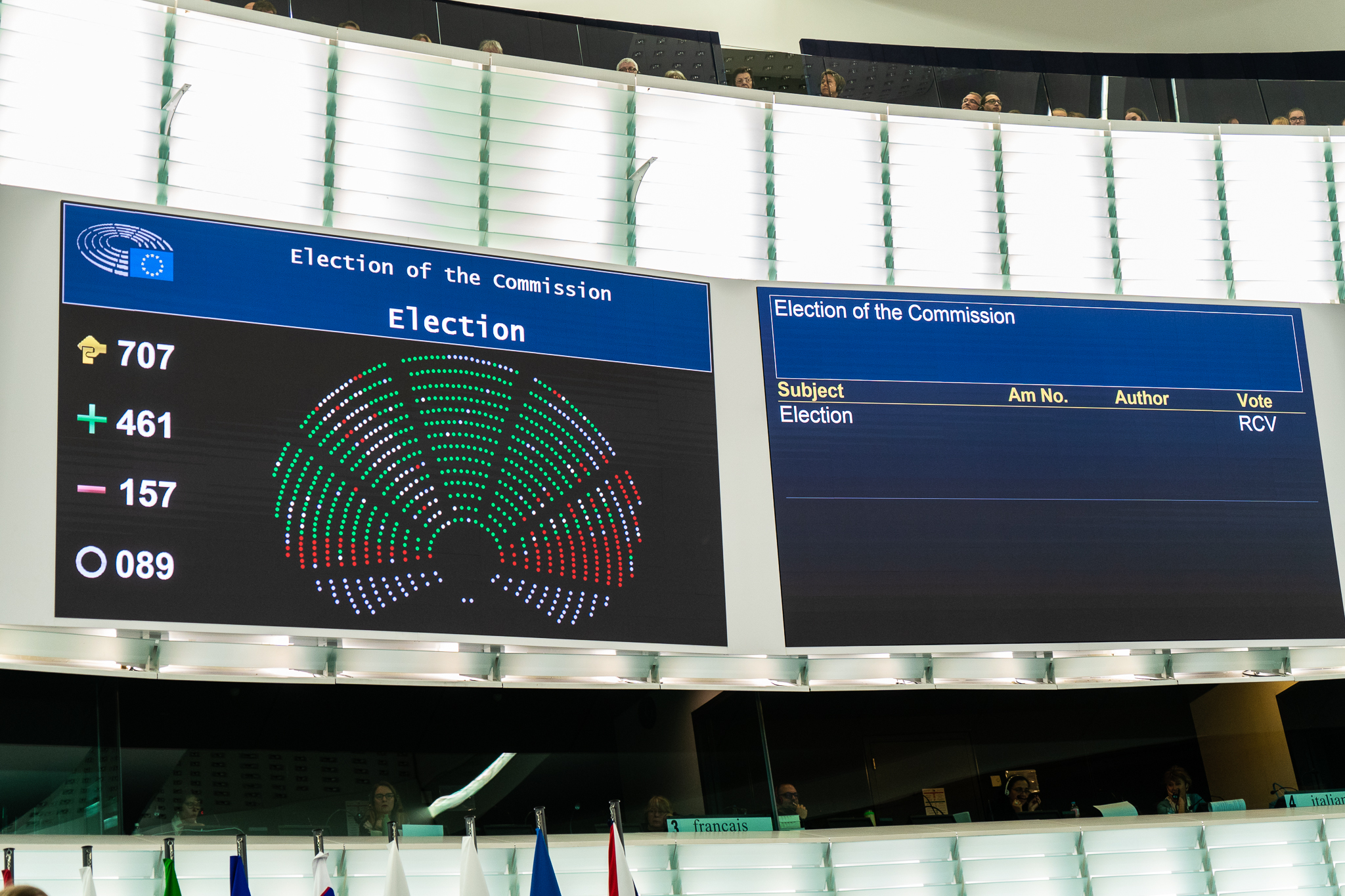 After assessing all the commissioners-designate, MEPs will decide on 27 November whether to elect the Commission as a whole, allowing it to take office on 1 December. Ursula von der Leyen speaking in a packed plenary chamber Commission President-elect Ursula von der Leyen speaks to plenary The plenary vote on Wednesday would bring to an end the long process of careful examination by Parliament of the proposed team of commissioners. Its objective was to ensure that the EU’s executive body has the democratic legitimacy to act in the interest of Europeans. MEPs elected Ursula von der Leyen as Commission president in July. Then, from the end of September to mid-November, parliamentary committees organised hearings with each of the nominees to judge their suitability for their proposed post. On 21 November political group leaders and Parliament’s president Sassoli agreed that the process of examination had been completed and that Parliament is ready to hold the final plenary vote. On Wednesday 27 November, President-elect Ursula von der Leyen will present her team and the new Commission’s programme. Following a debate, MEPs will decide by simple majority whether to elect the Commission or not. If approved, the new Commission will start work on 1 December. Read our Top Story Collection here: This photo is free to use under Creative Commons license CC-BY-4.0 and must be credited: "CC-BY-4.0: © European Union 2019 – Source: EP". No model release form if applicable. For bigger HR files please contact: webcom-flickr(AT)